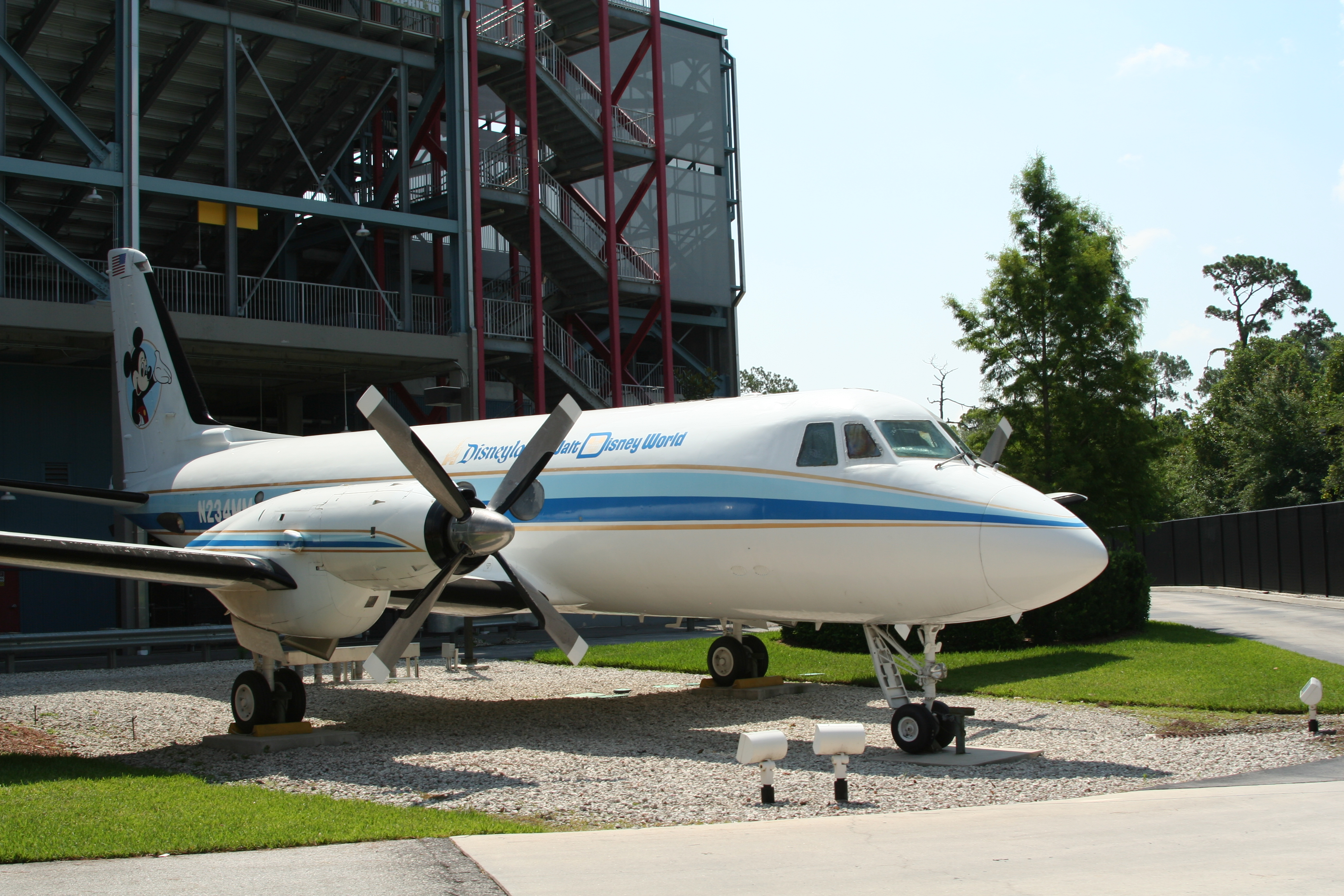 Walt Disney's Airplane (N234MM) on the Studio Backlot Tour in Disney's Hollywood Studios